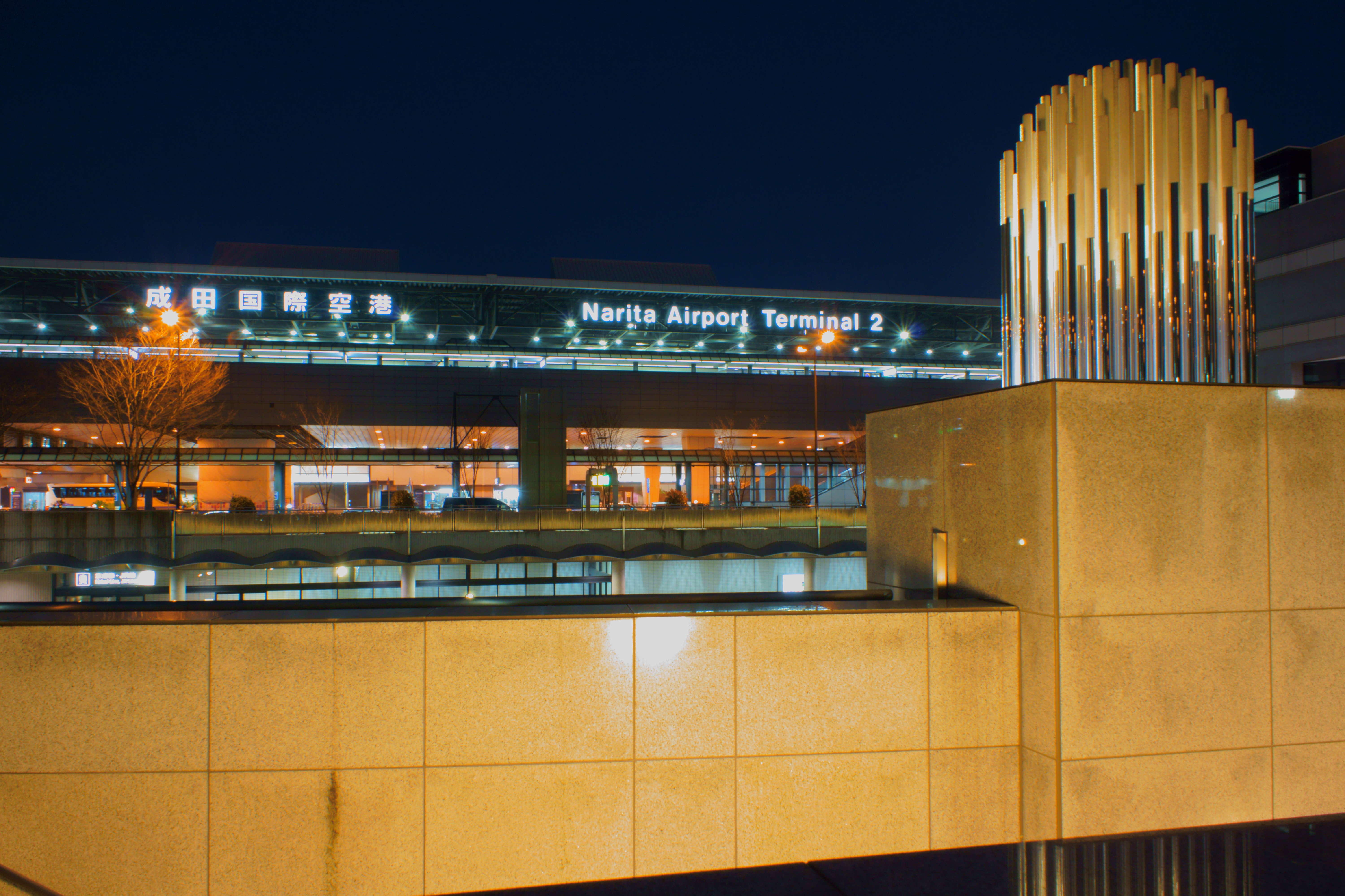 Night view of Tokyo-Narita Airport Terminal 2.